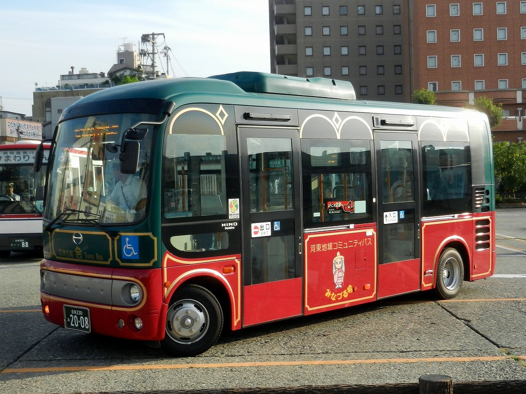 Aizu bus Hino Ponchofor Kawahigashi town (Aizu-Wakamatsu city) community bus "Minazuru-go"